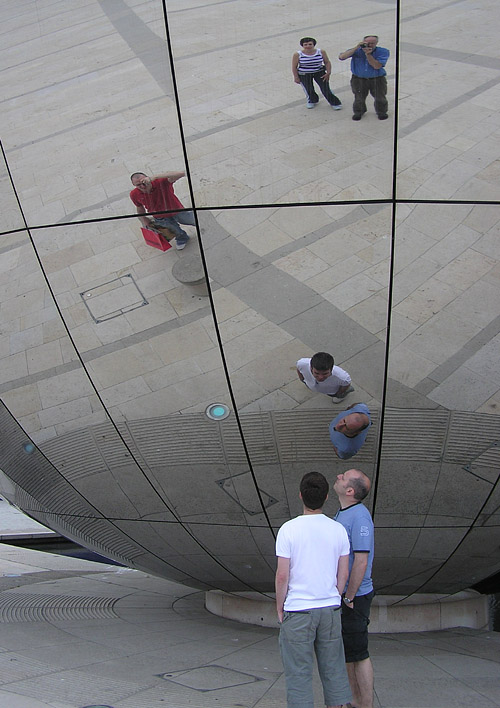 Spherical mirror in Millennium Square, Bristol, England. The photographer (me) is seen top right in the blue shirt. The mirror forms the side of the Explore-At-Bristol Planetarium sphere. Taken by Adrian Pingstone in June 2004 and released to the public domain.